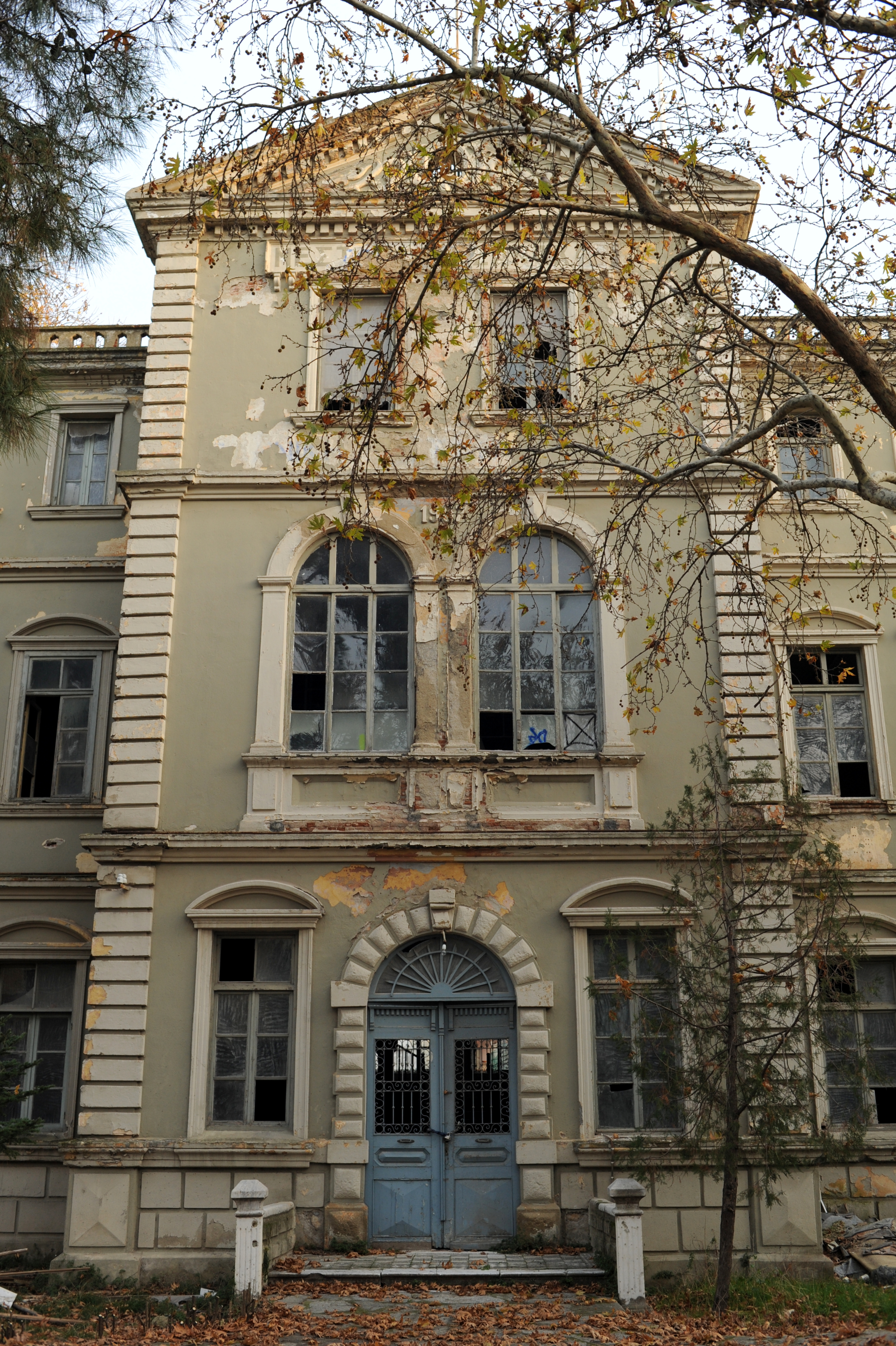 Tsanaklios School, Komotini, West Thrace, Greece.